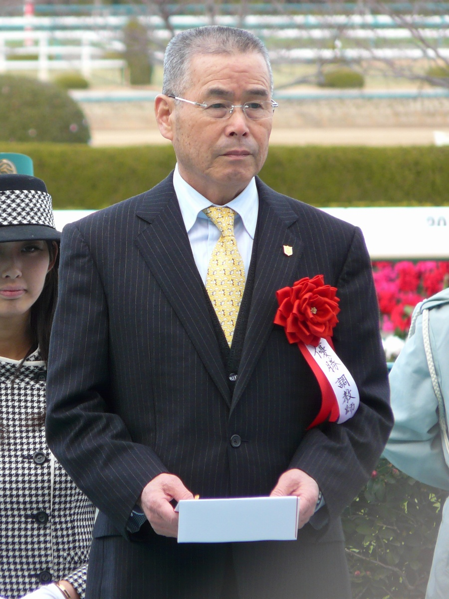 Yasuo-Ikee20101225